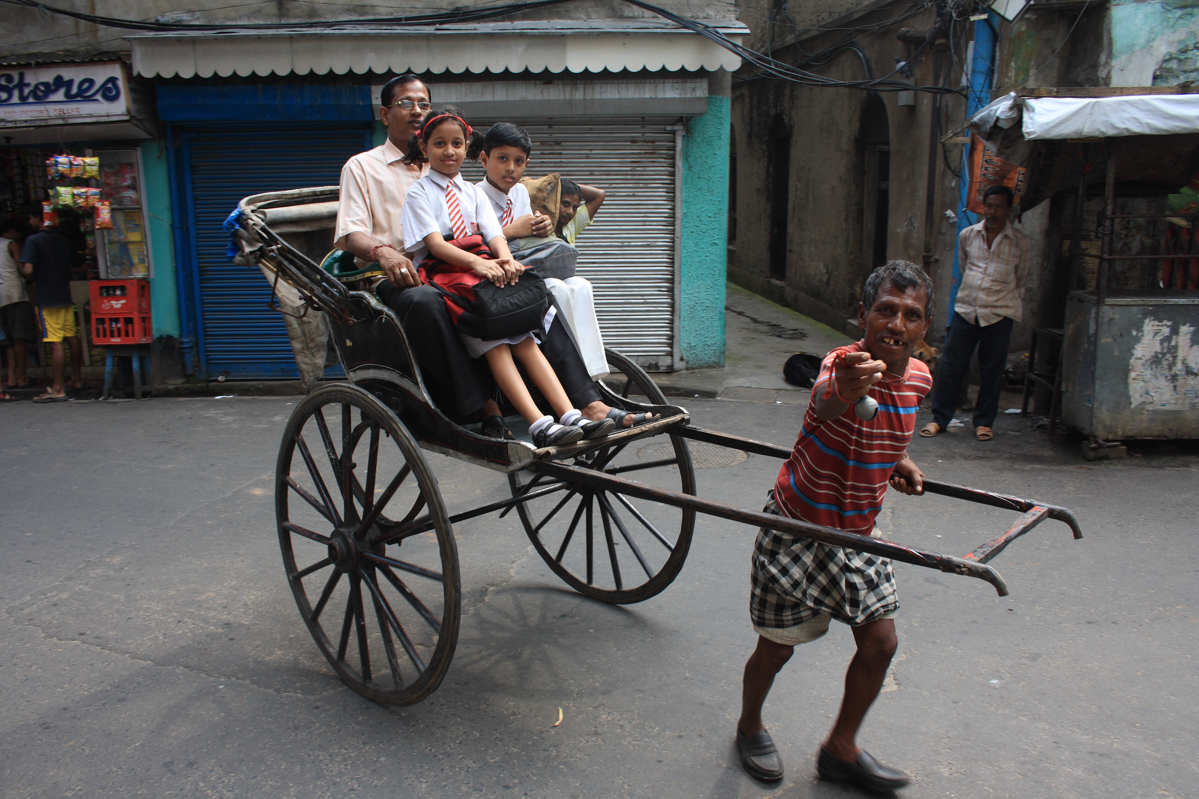 A man pulling a rickshaw in a narrow Kolkata road near Sealdah train station. A man and his children he propably just picked up after school are his passengers.